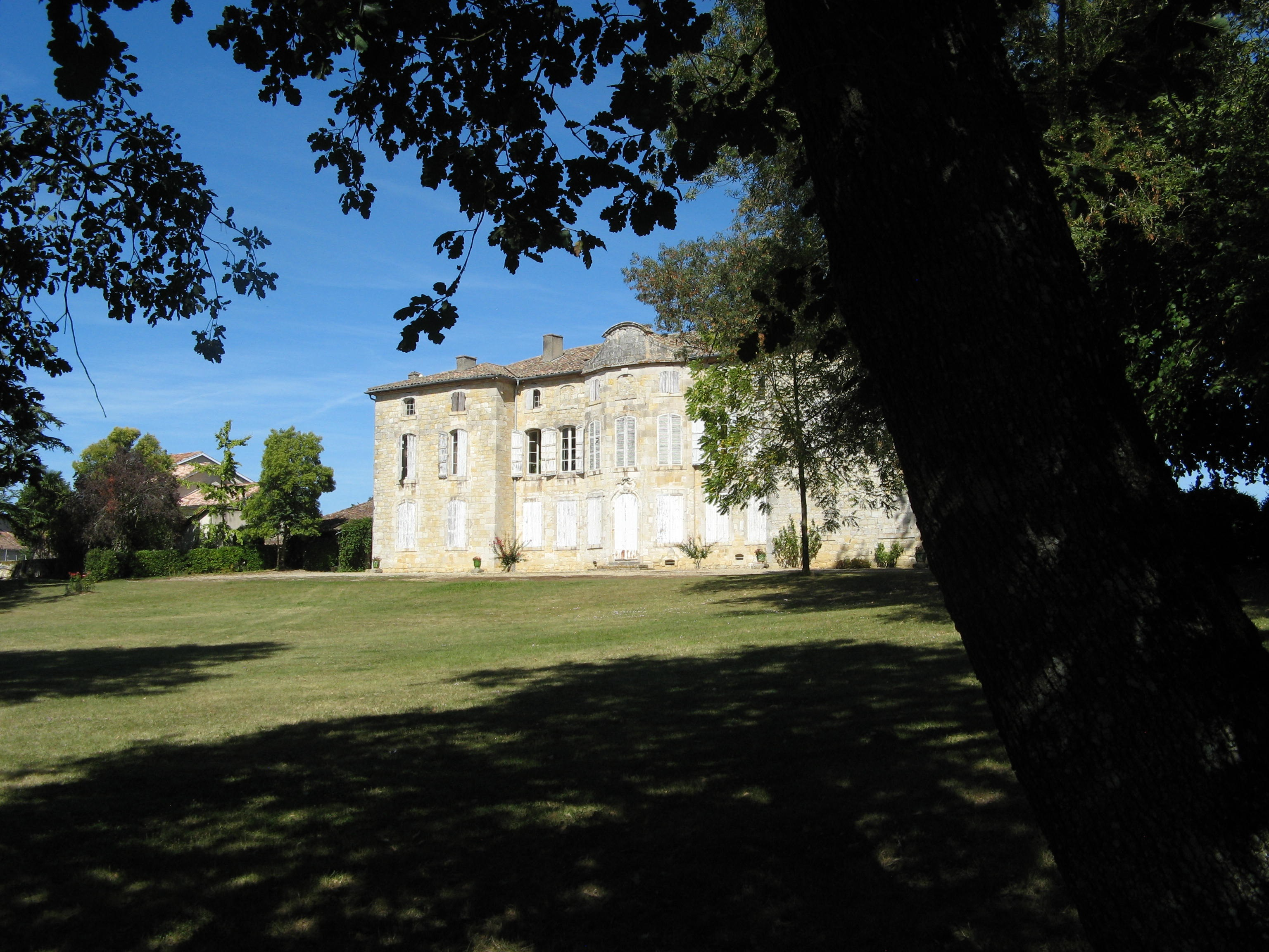 Château de Fals, Fals is located in the township of Astaffort part of the district of Agen. .